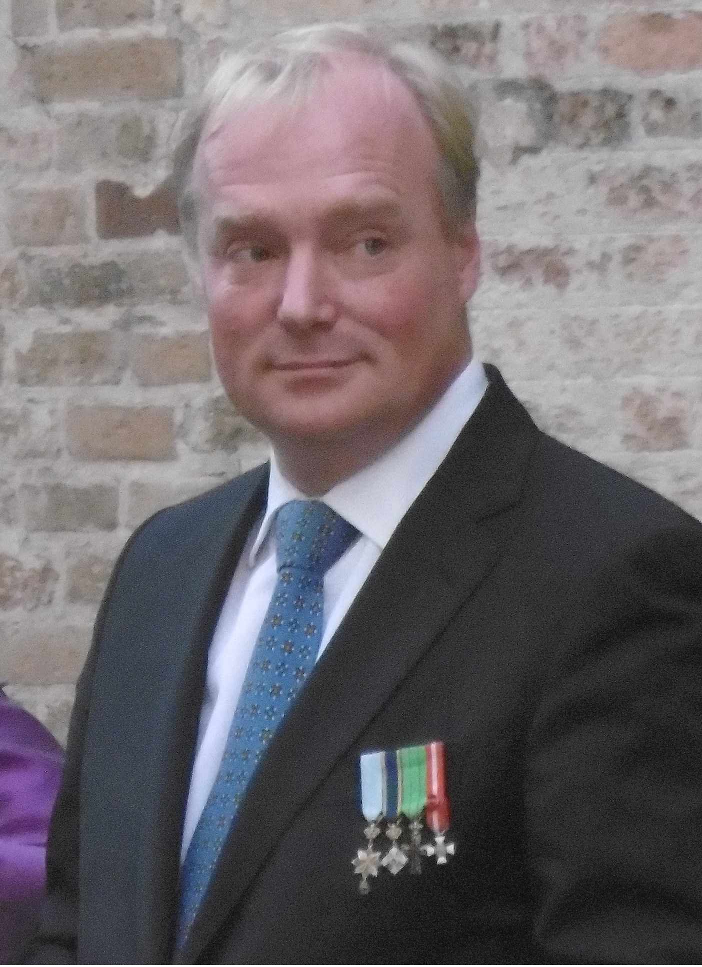 Prince Carlos, Duke of Parma